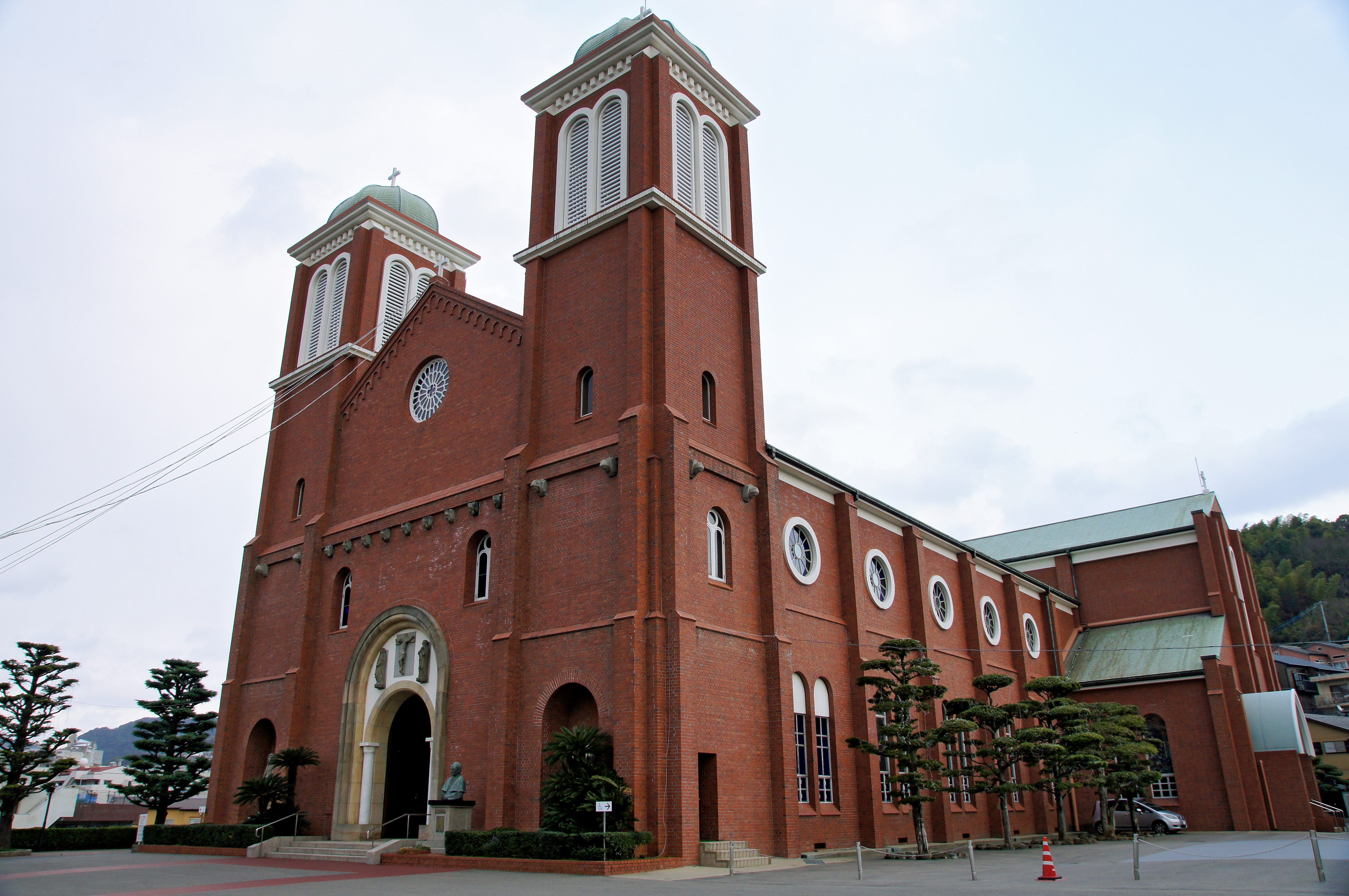 At Urakami Cathedral in Nagasaki, Nagasaki prefecture, Japan.